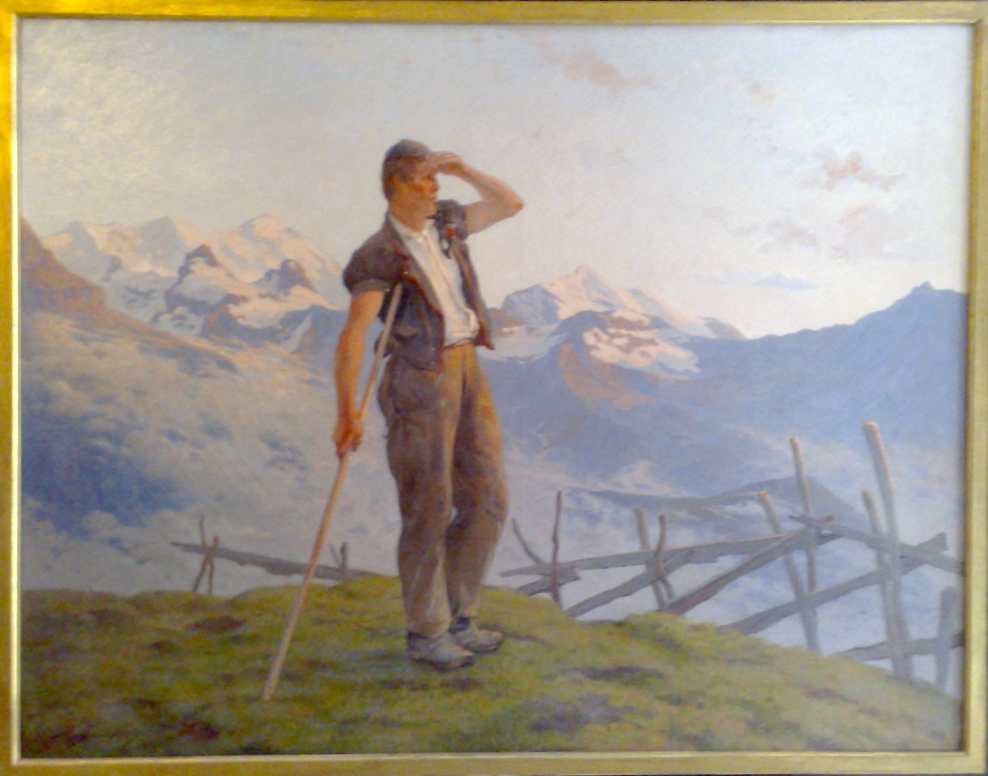 Berger consultant l'horizon (1879) by Auguste Baud-Bovy, oil on canva 90.5 x 121cm